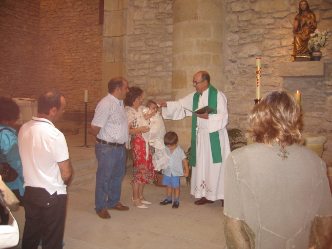 Baptism ceremony in a small town in the Basque Country. This photograph was taken on 2007-08-18 on the Gatika village of the Biscay (Bizkaia) province of the Basque Country (Europe), using a Canon PowerShot S50 camera. The original size was 2592x1944 pixels, it was reduced to the present size (648x486 pixels) using the IrfanView freeware program. It is the fifth print of a series of 8 prints to show the ceremony on small towns of Biscay at the beginning of the XXI century. Bataioko elizkizuna Euskal Herriko herri txiki batean. Argazki hau 2007-08-18an hartu zen Bizkaiko Gatika herrian. Bataioaren zeremonia XXI. mendeko lehenengo urteetan Bizkaiko herri txikietan nolakoa den erakusteko jarritako 8 argazkiren serieko 5. da